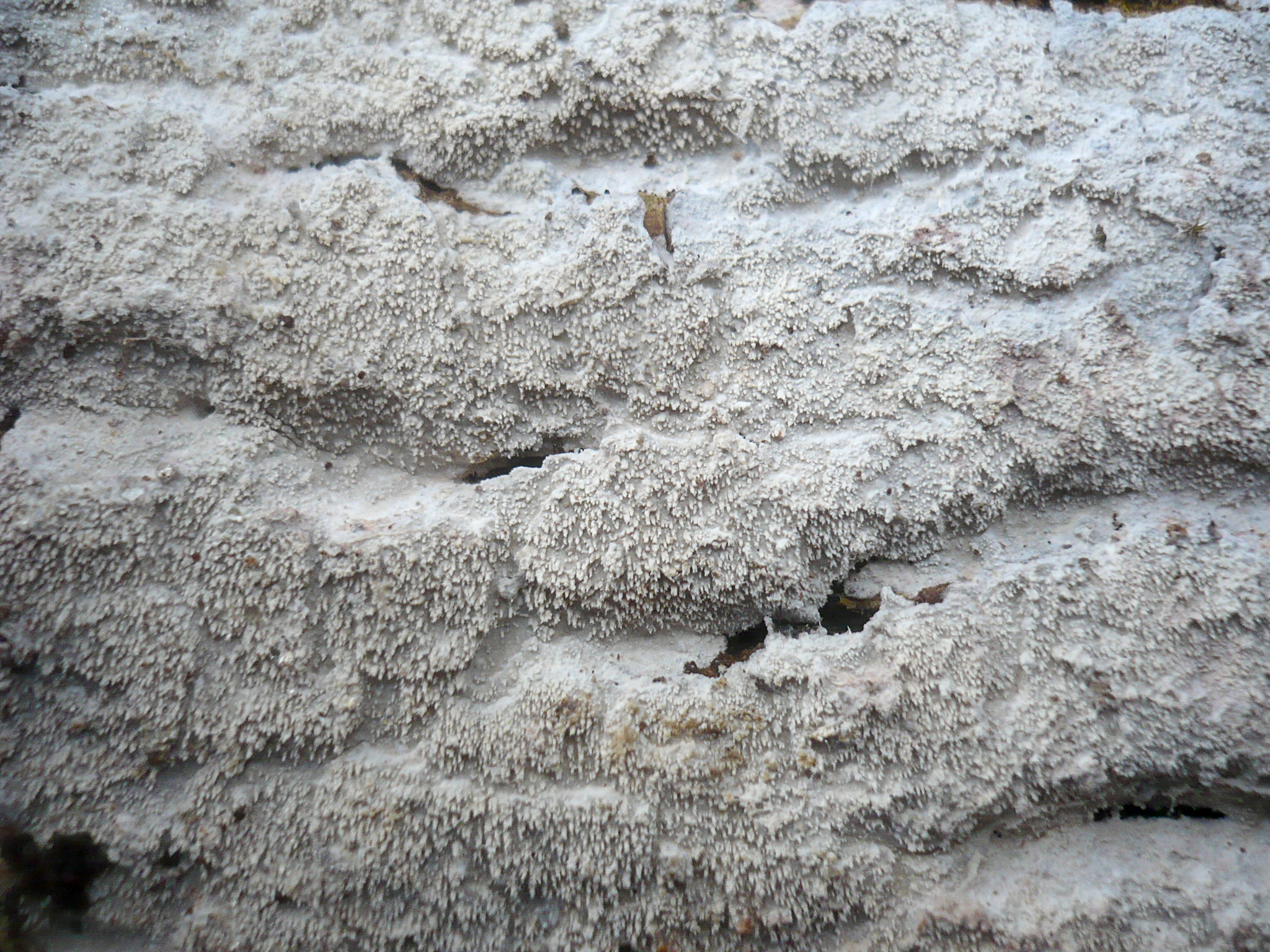 Crustomyces subabruptus (Bourdot & Galzin) Jülich Image location: Im Prest, Eichbüchl, Bezirk Wiener Neustadt, Lower Austria, Austria Used references Based on microscopic features: dendrohyphidia and gloeocystidia match well with macroscopical feature For more information about this, see the observation page at Mushroom Observer.